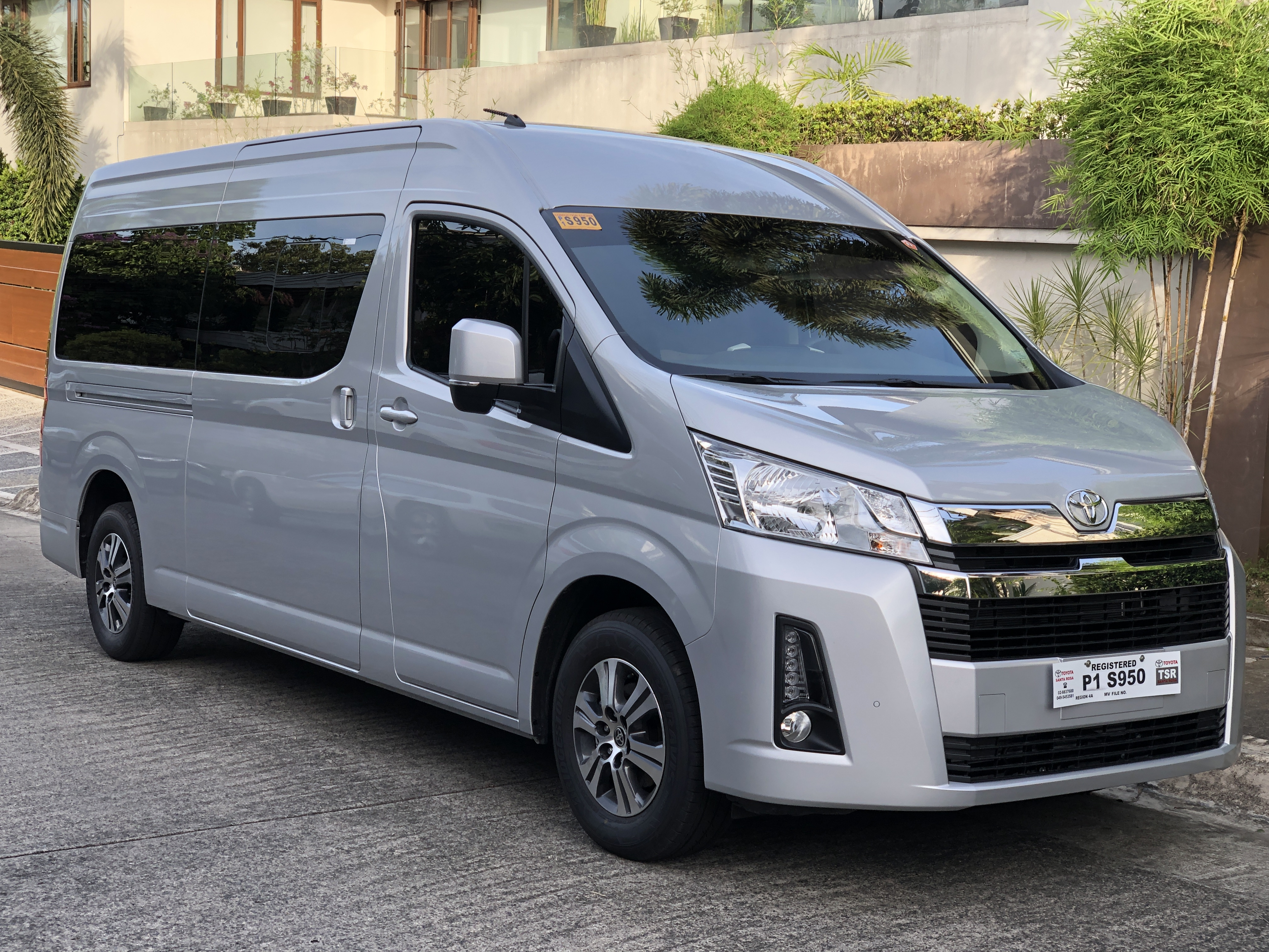 Front side of the Toyota HiAce GL Grandia Tourer.